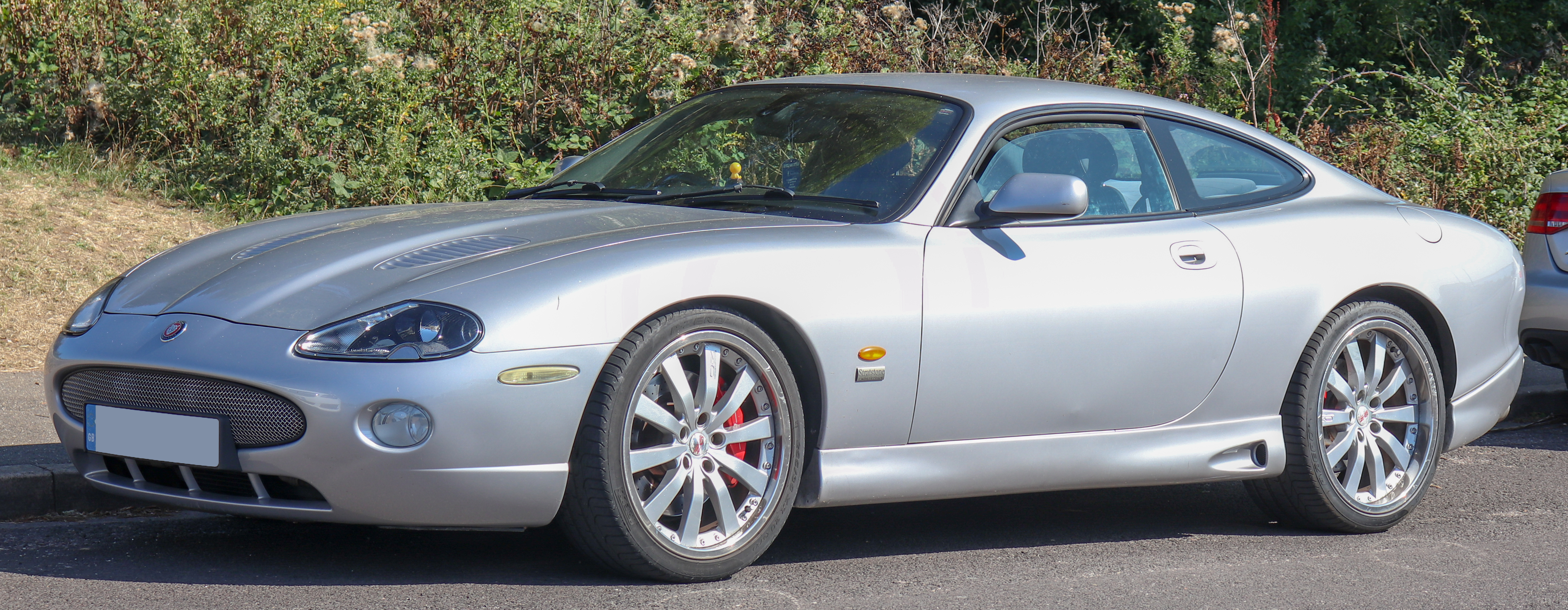 2006 Jaguar XKR Coupe Automatic 4.2 Front Taken in Weymouth, Dorset